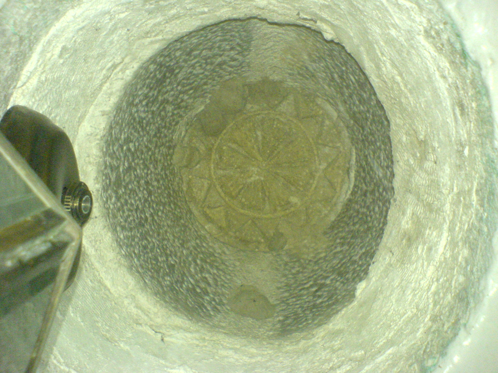 Mosque Alamshati in Lattakia